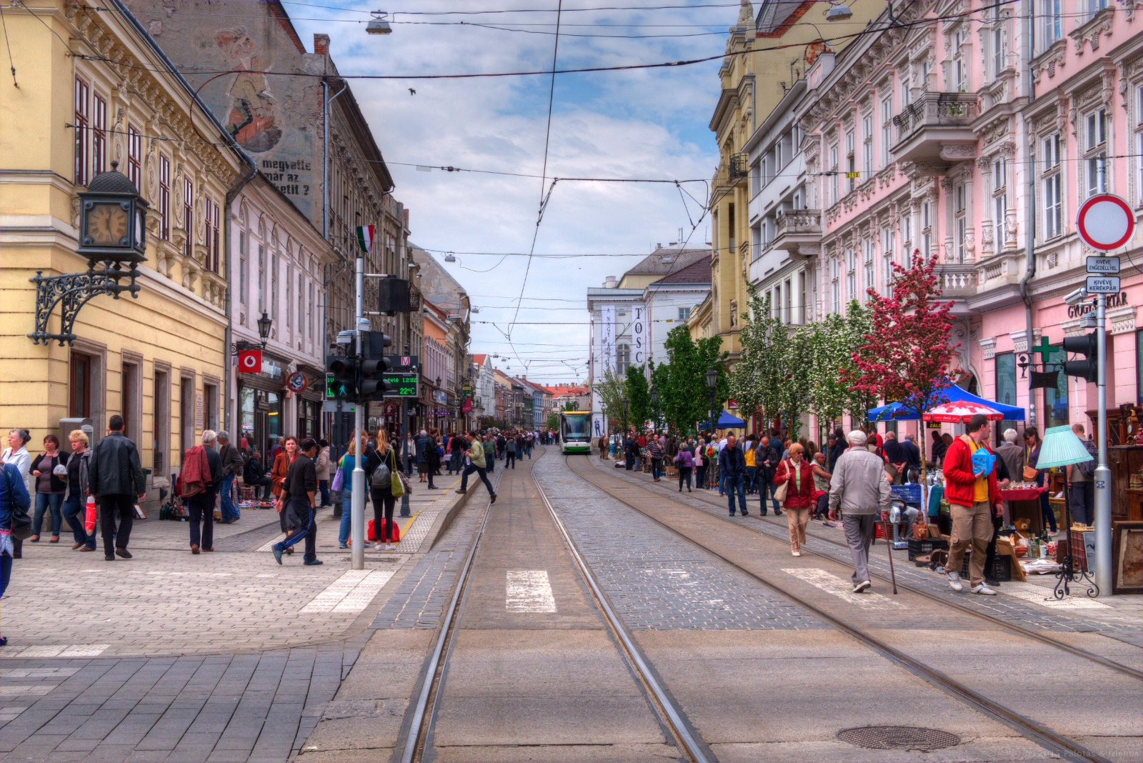 Villanyrendőr, Széchenyi Street, Miskolc, Hungary